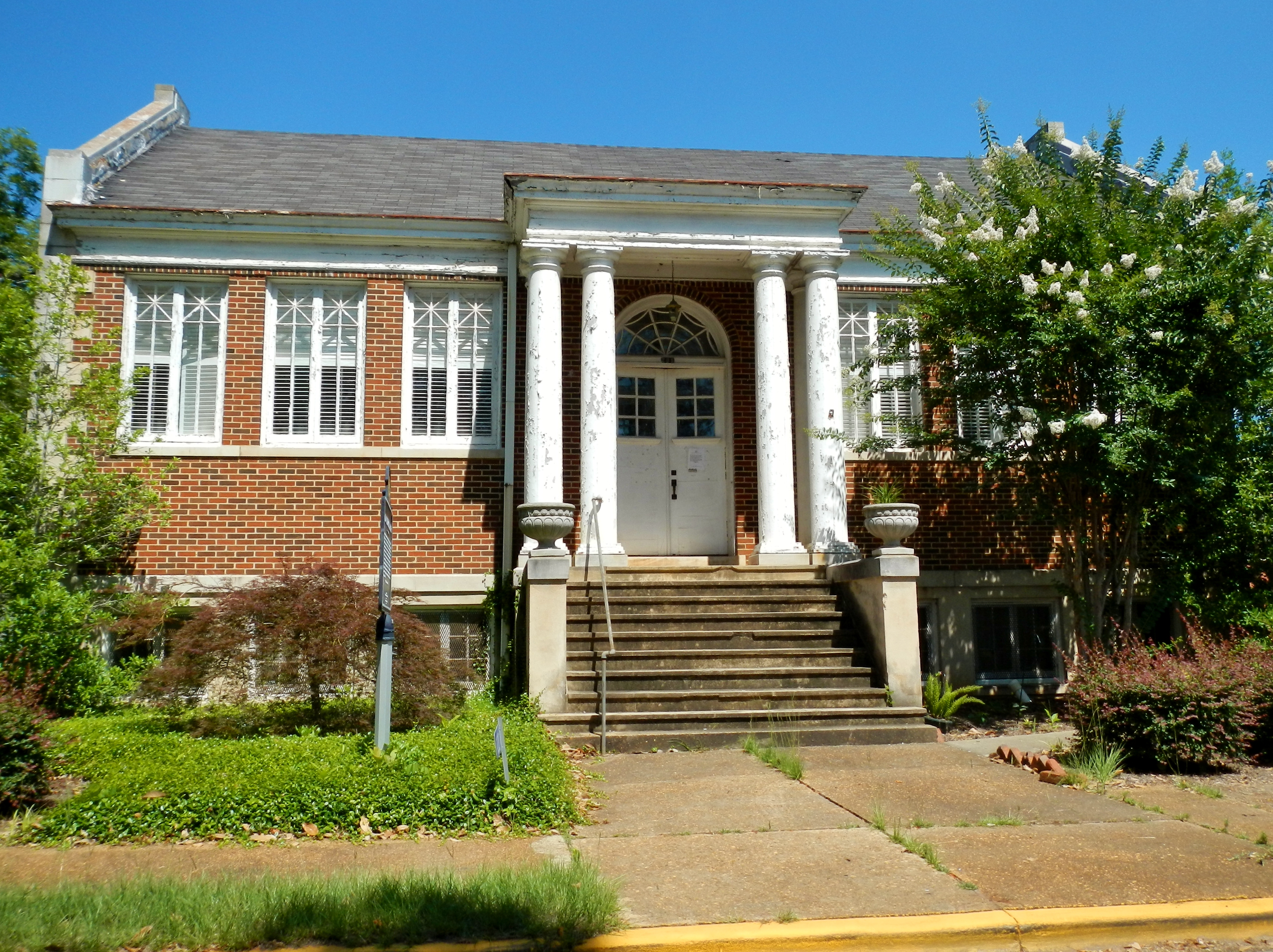 This is a photograph of the Old Carnegie Library in Cuthbert, GA.